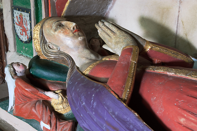 St Mary's church, Burford - monument to Princess Elizabeth (detail)